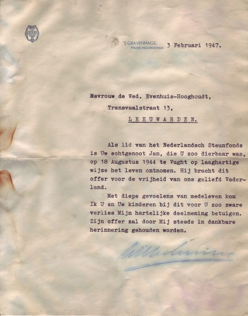 Condolence letter from Queen Wilhelmina of the Netherlands addressed to Johanna Evenhuis-Hooghoudt